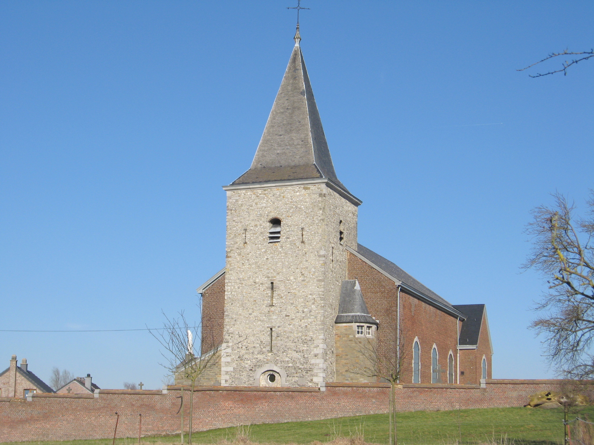 Church of Saint Hadelin in Lamine, Remicourt, Liège, Belgium